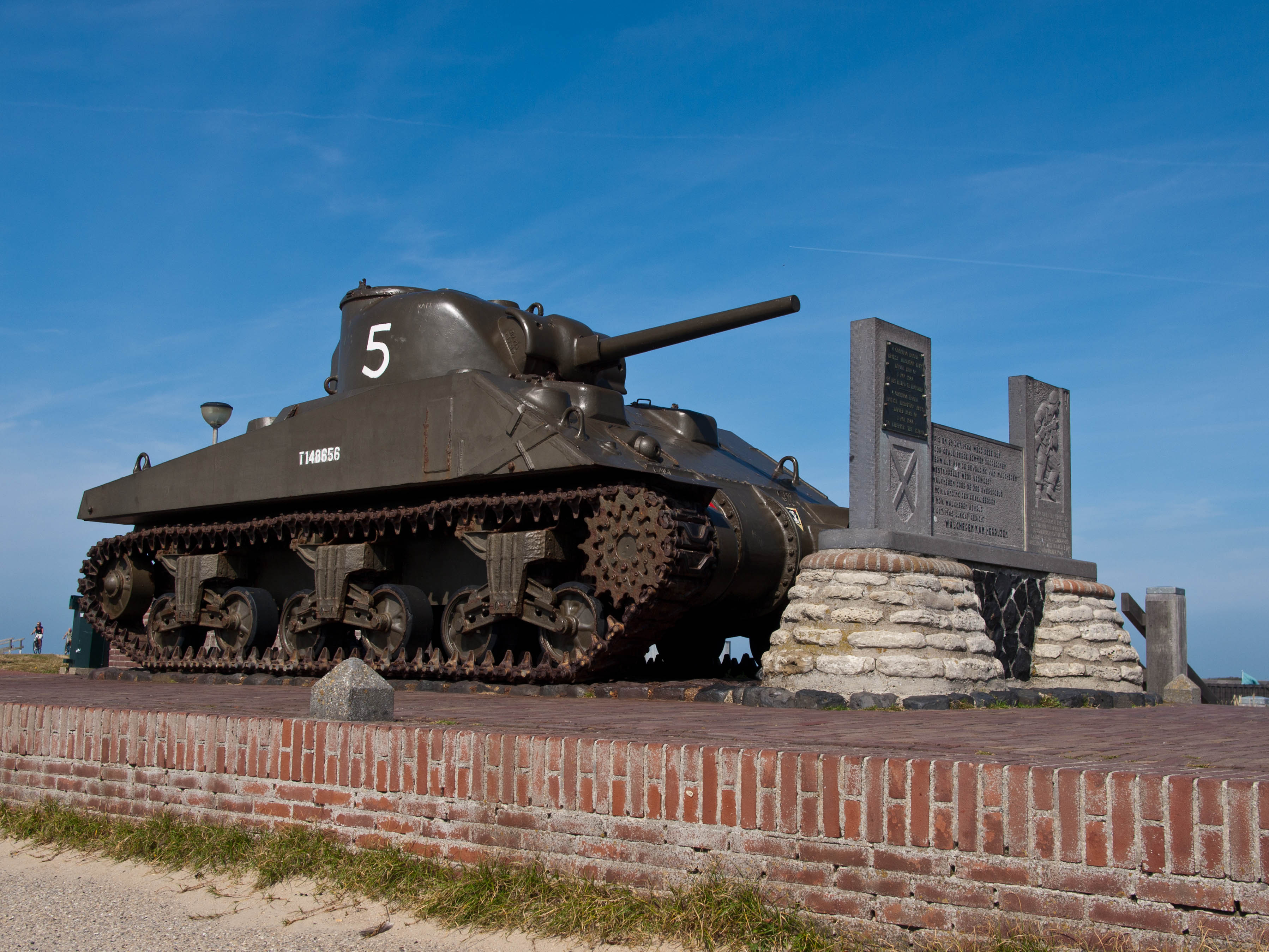 M4A4 Sherman V Crab tank without a flail in West